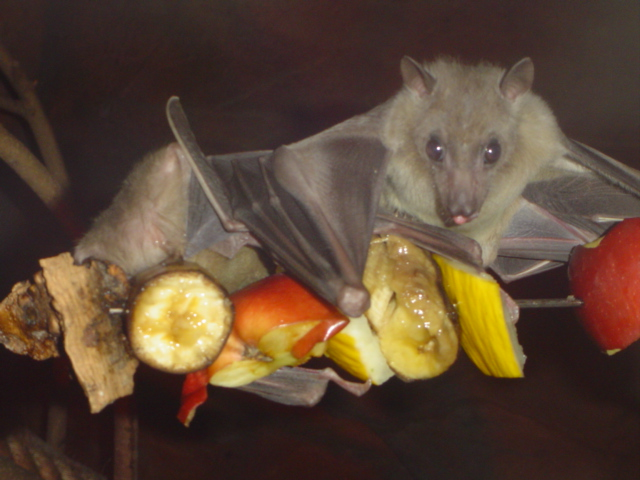 Rousettus aegyptiacus (Egyptian fruit bat) at Amazonia Strathclyde Country Park in Glasgow